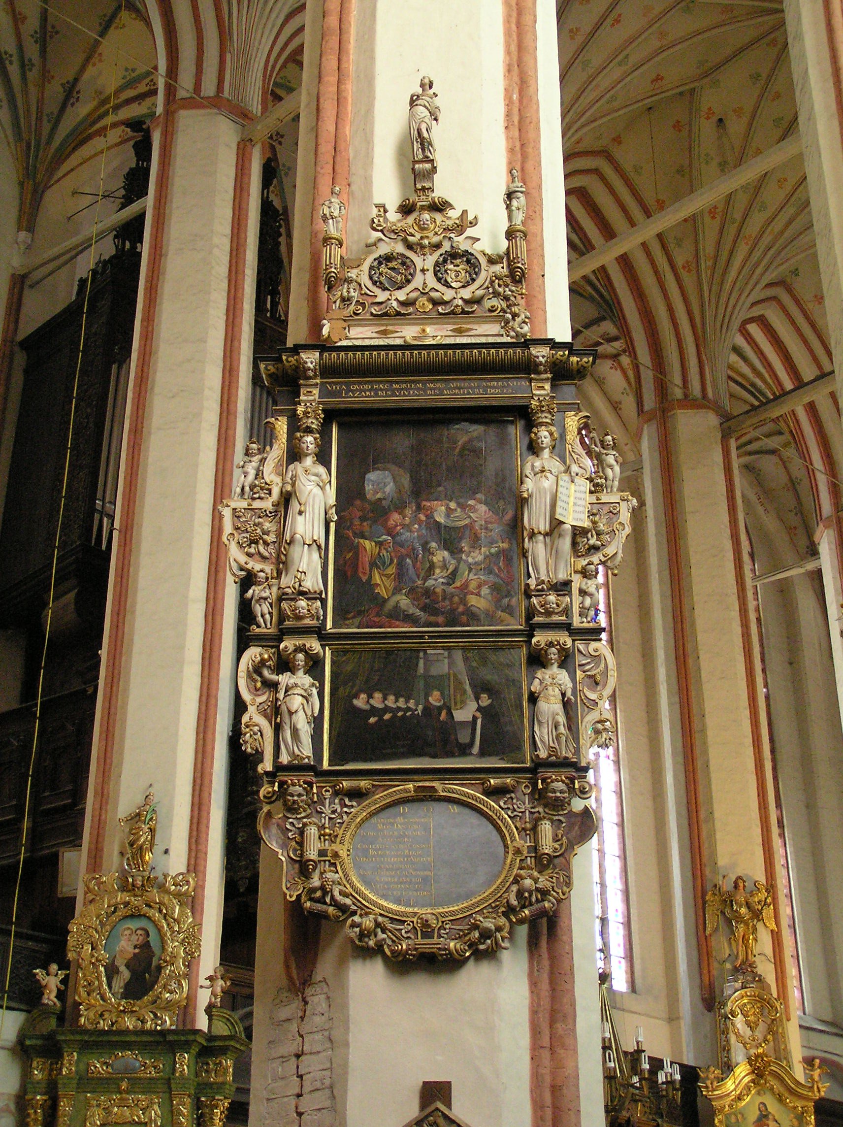 Toruń, St. Mary's church, epitaph of the Mochinger family.